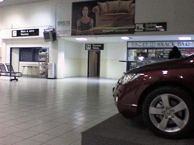 Snack bar at Kemerovo Airport, Terminal International, Kemerovo, Russia.